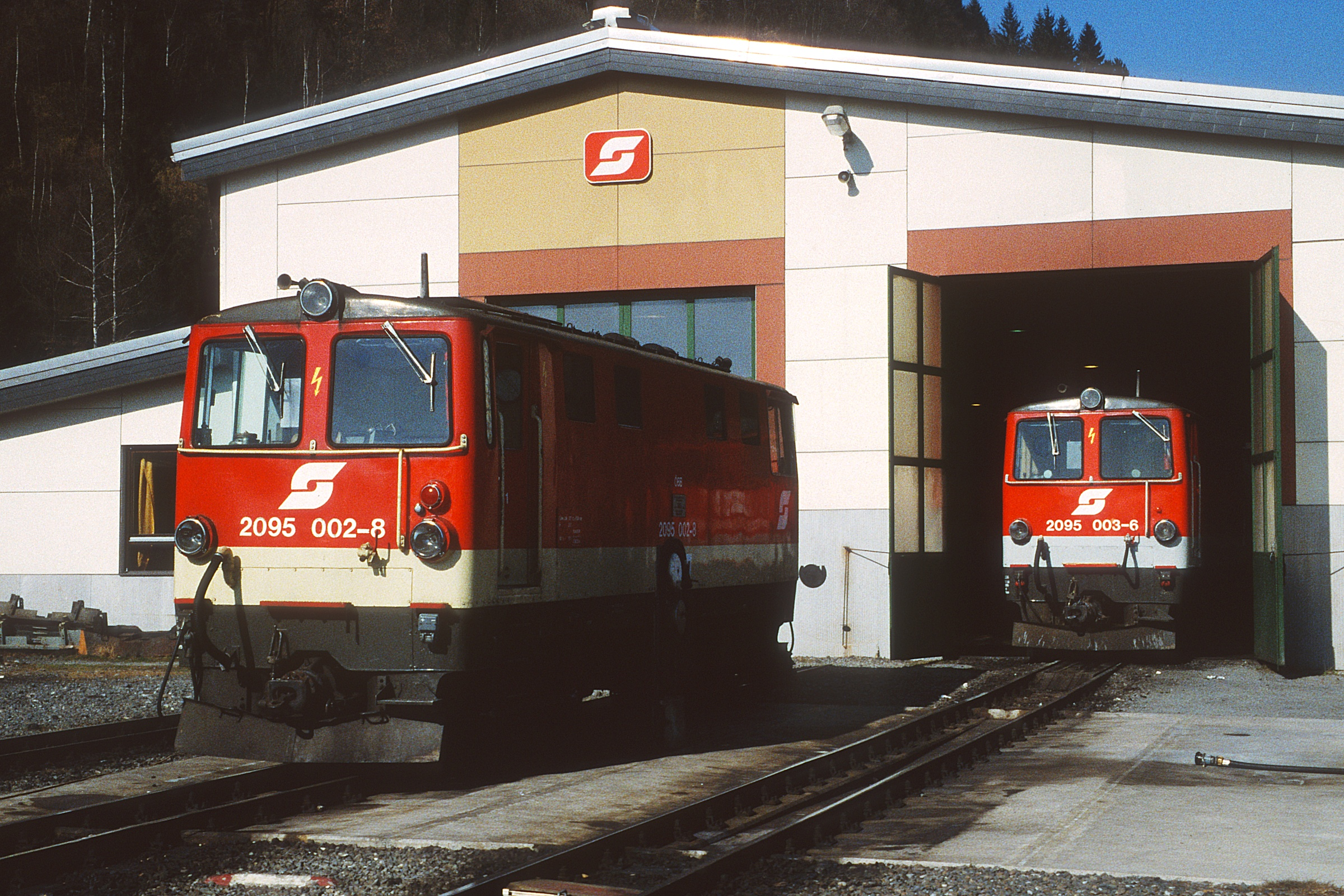 ÖBB 2095 002-8 and 2095 003-6 at Tischlerhäusl engine shed in Zell am See. Both locomotives were destroyed in a frontal crash on July 2nd, 2005.